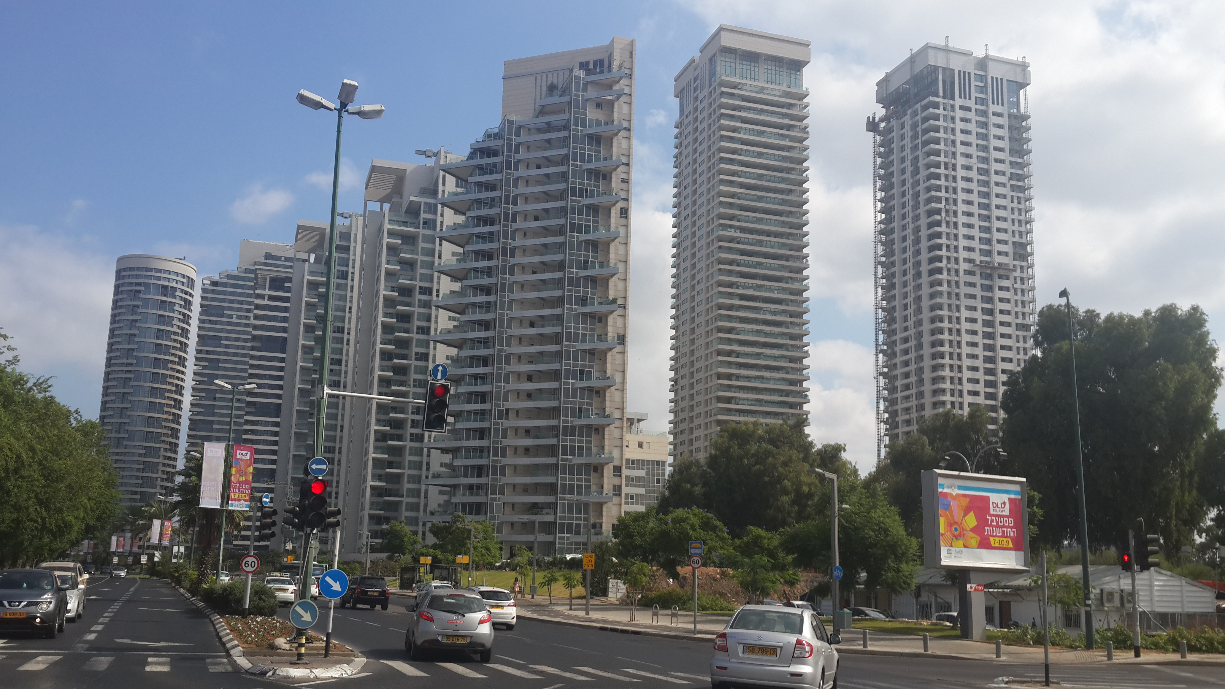 New buildings on Namir bvrd, Tel Aviv